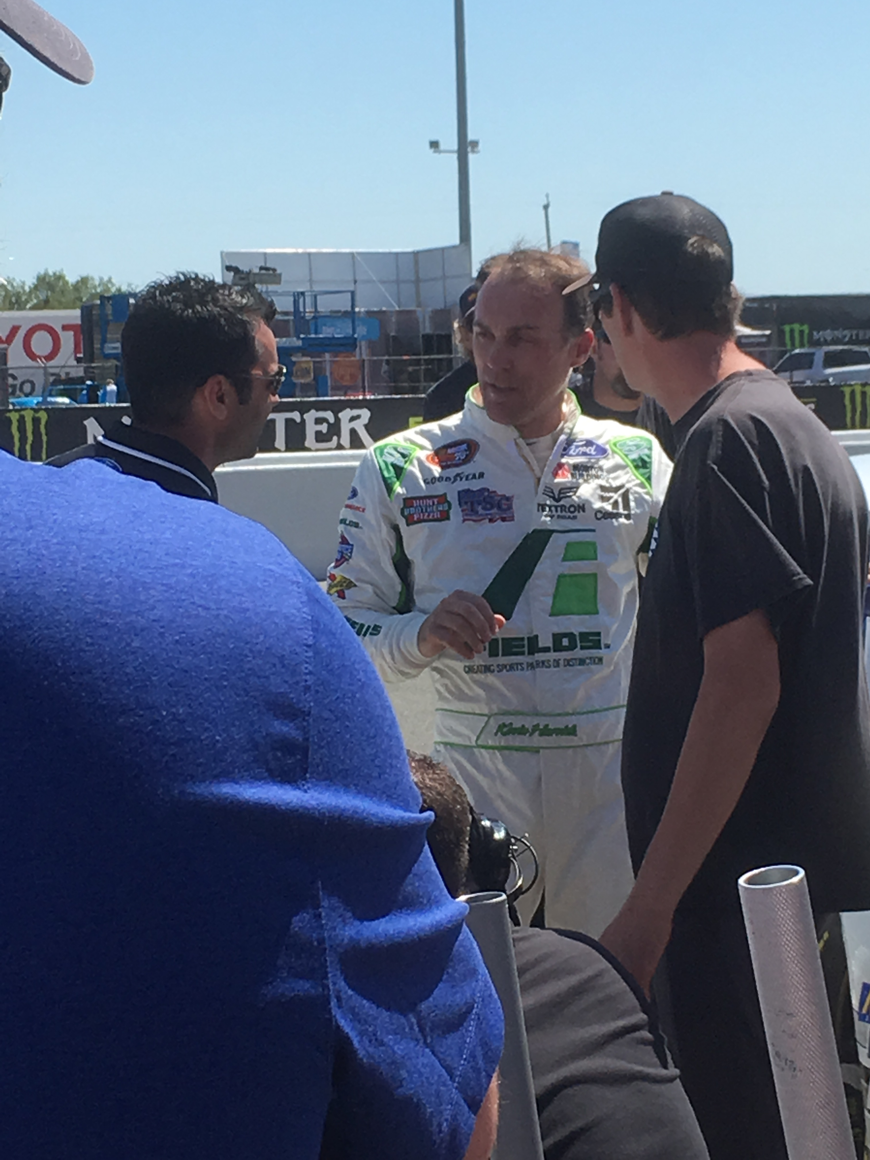 Kevin Harvick at the 2017 Carneros 200.